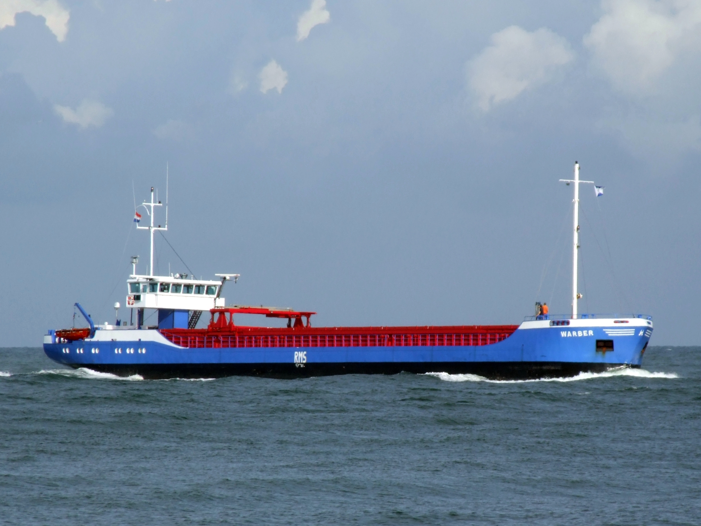 Photographed at the Port of Rotterdam, The Netherlands.